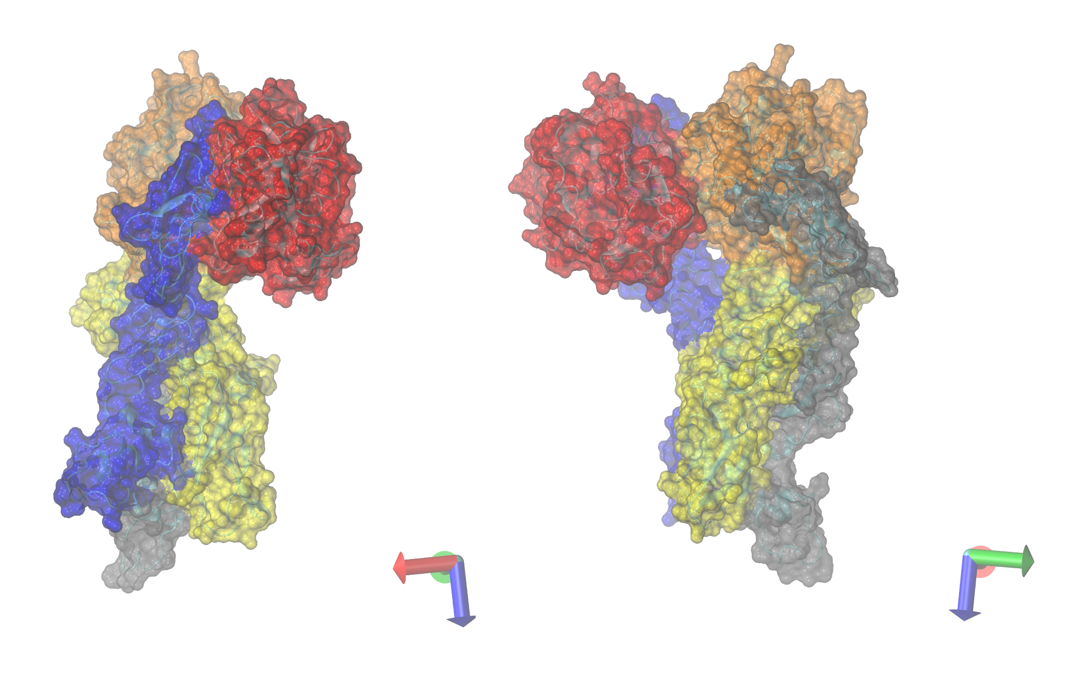 3d ribbon/surface model of the human factor III (bright green):factor VIIa (dark green/grey):factor Xa (red/blue) protein complex after PDB 1NL8. This image was created with VMD